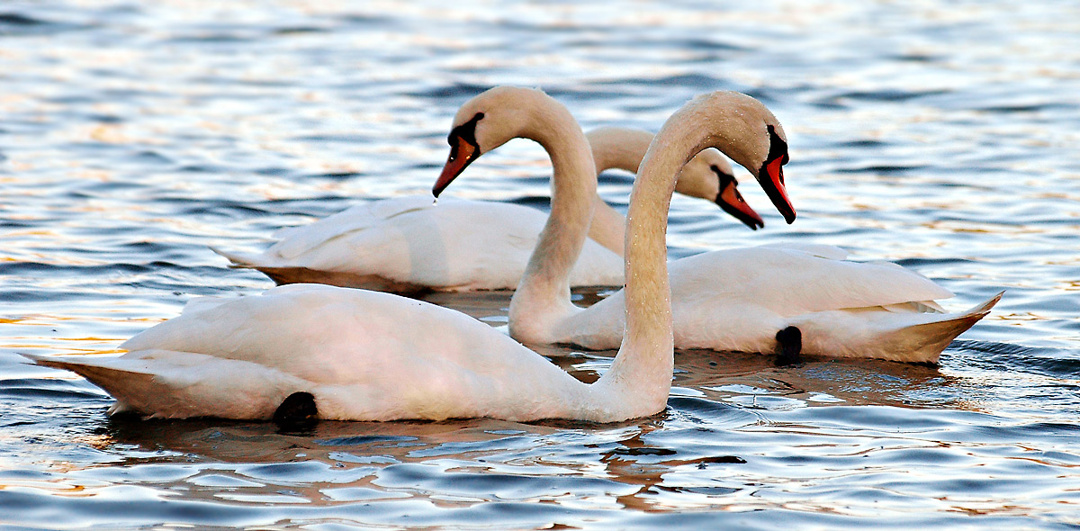 This image shows three swans, the heraldic animals of Zwickau (Saxony, Germany).